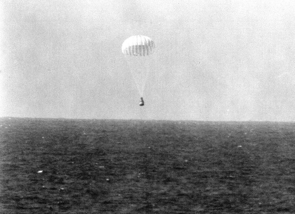 Landing with parachute extended of Astronaut Walter M. Schirra's Mercury-Atlas 8 (MA-8) capsule, called the Sigma 7, after a world orbital flight.